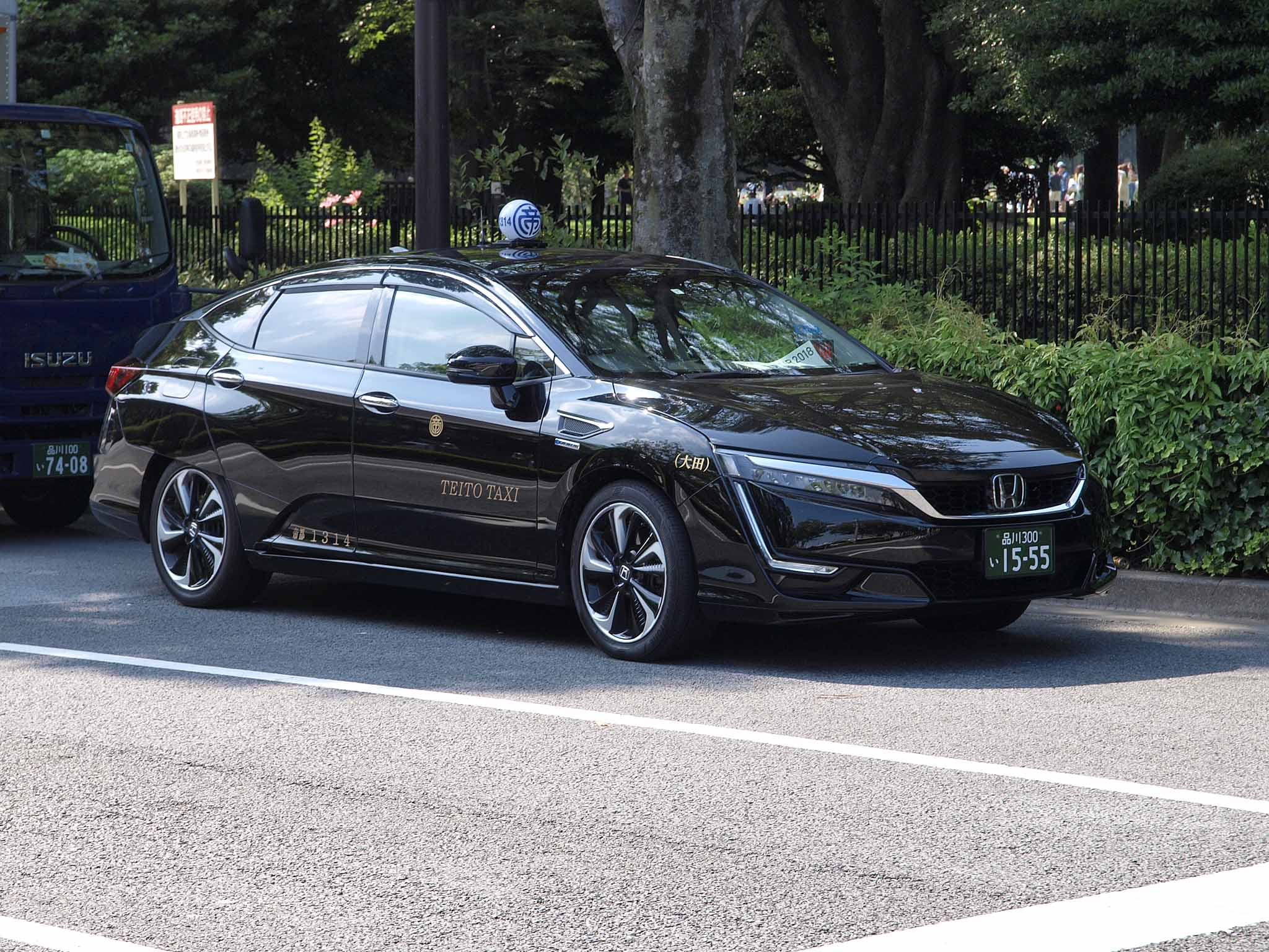 Honda Clarity Fuel cell, demonstrated at Eco Life fair 2018. License plate: TKS300 I1555 Operator: Teito Jidosha Kotsu